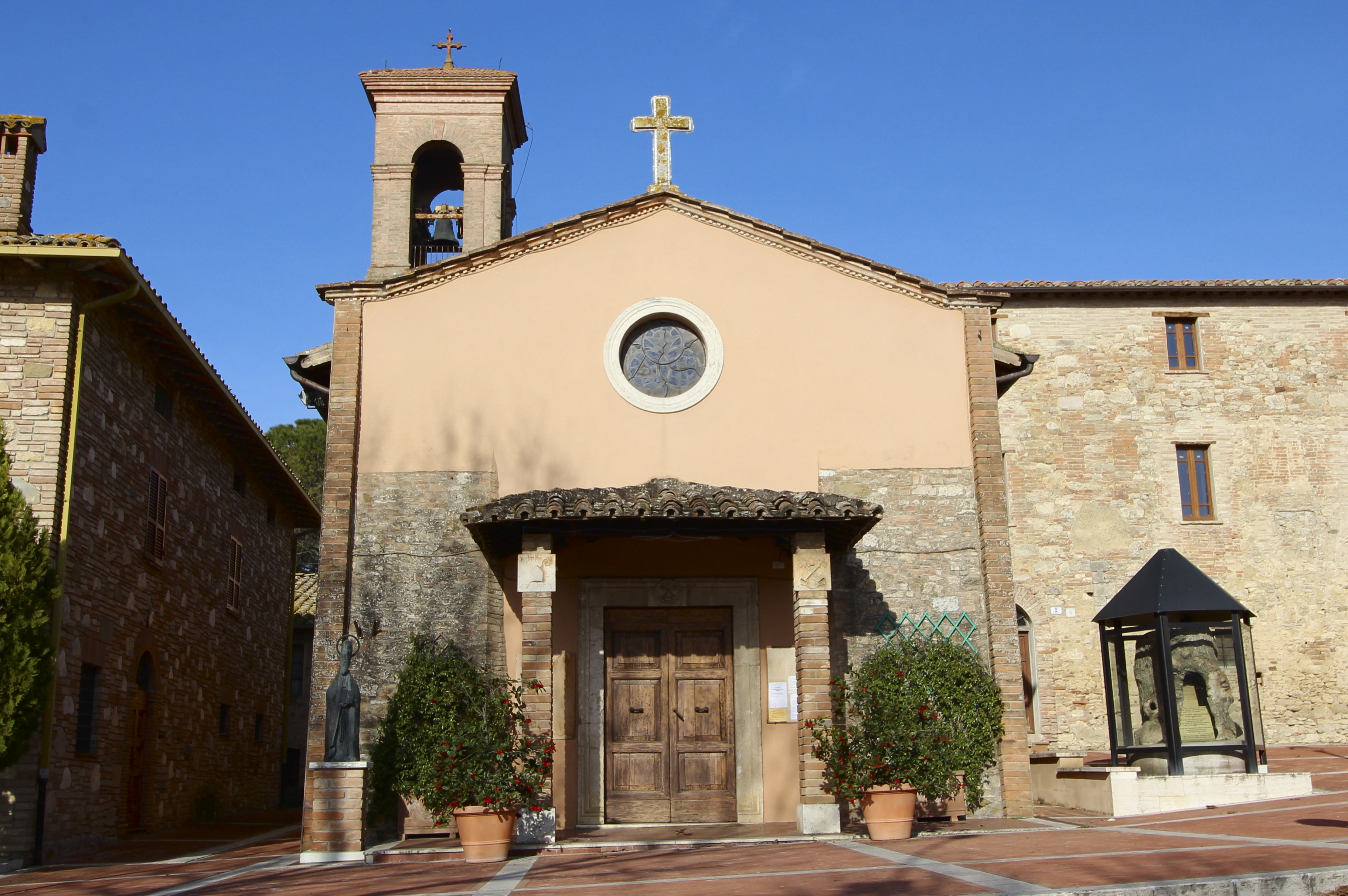 Church San Benedetto, Badiola, hamlet of Marsciano, Province of Perugia, Umbria, Italy